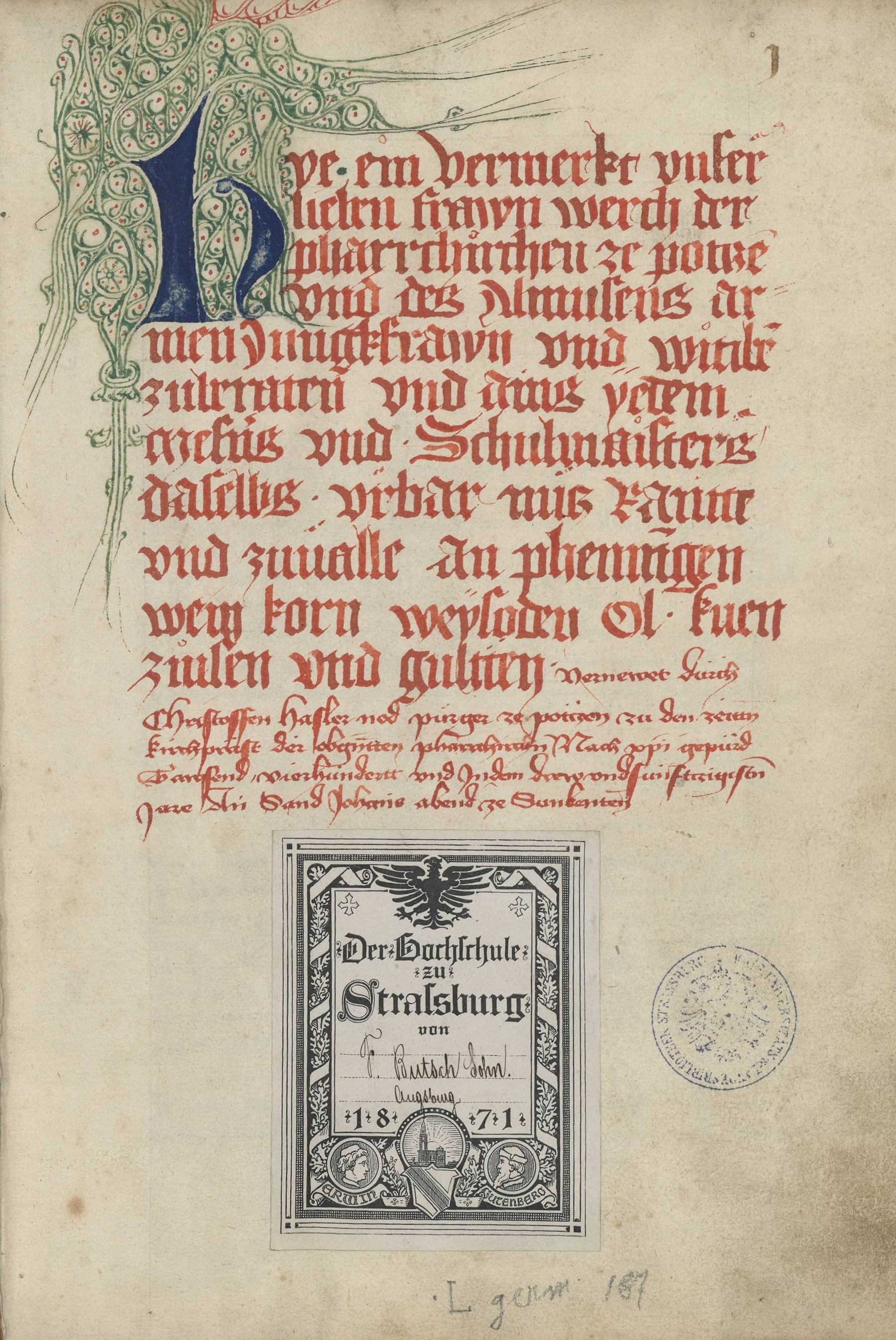 Title leaf of the tithes register of the Bozen parish church from 1453-60